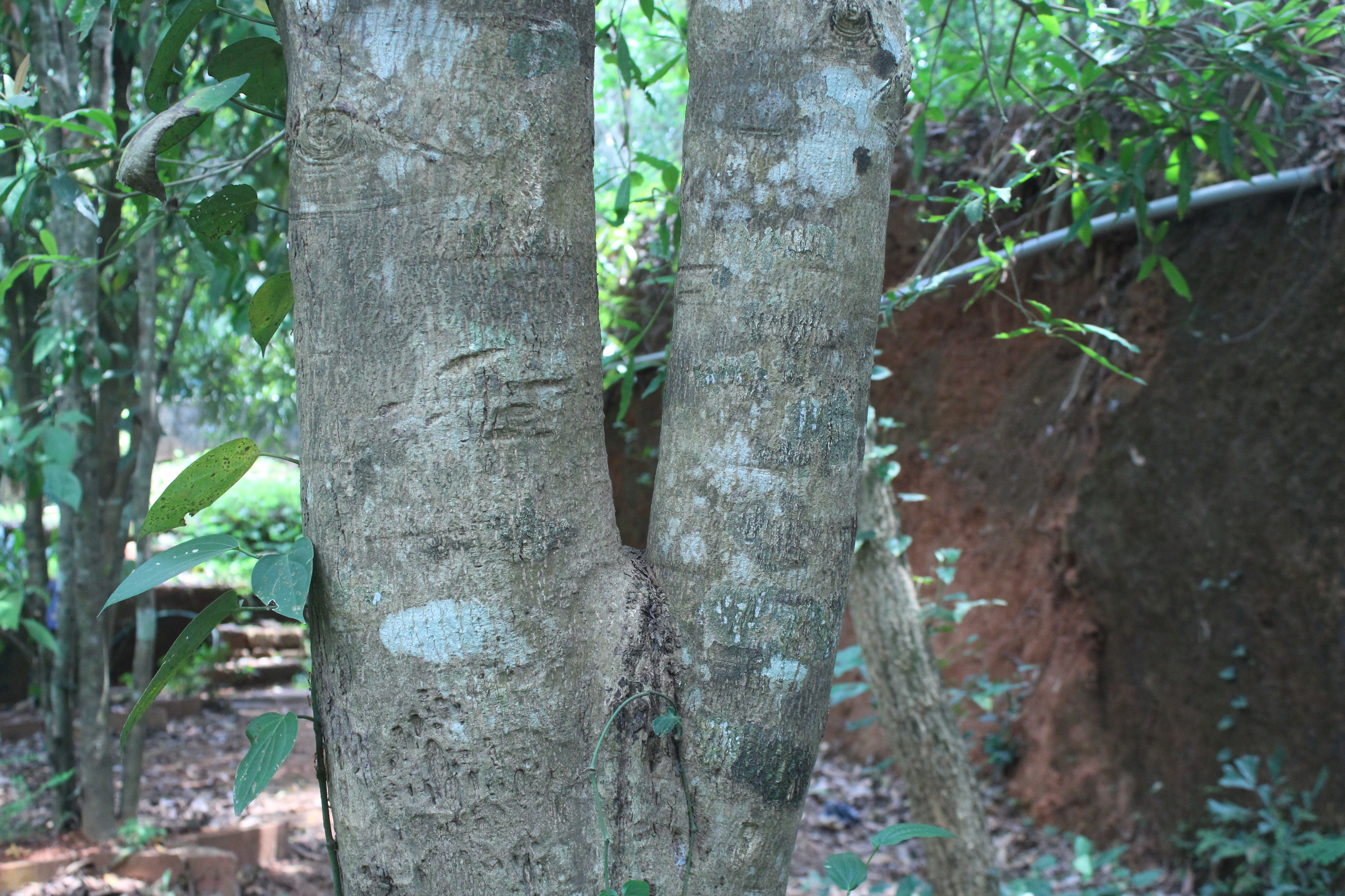 MADHUCA LONGLFOlIA